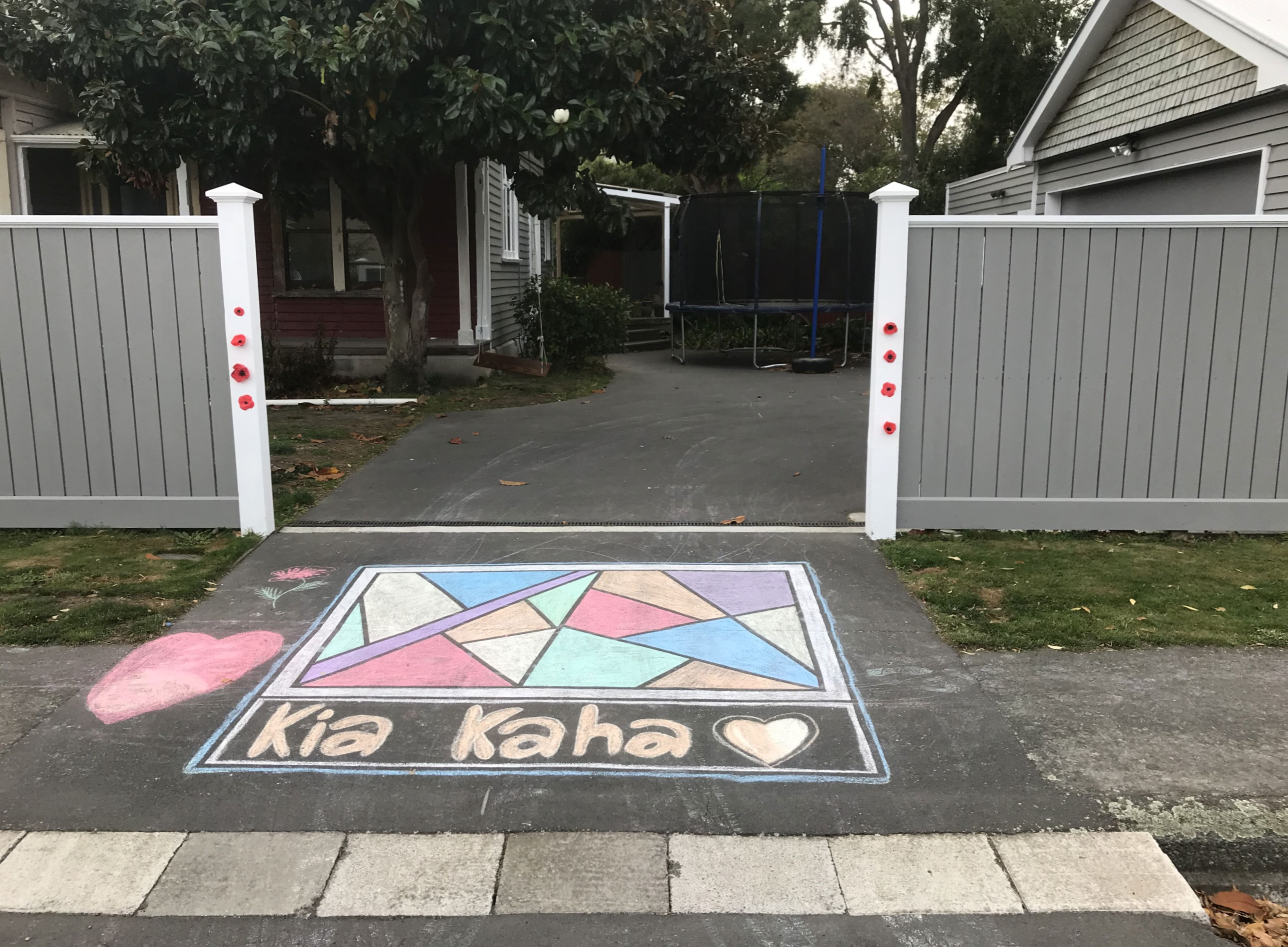 2020 ANZAC Day in Linwood, Christchurch, during lockdown